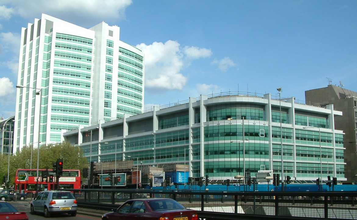 University College Hospital - New Building - London - England - Category:University College London 332